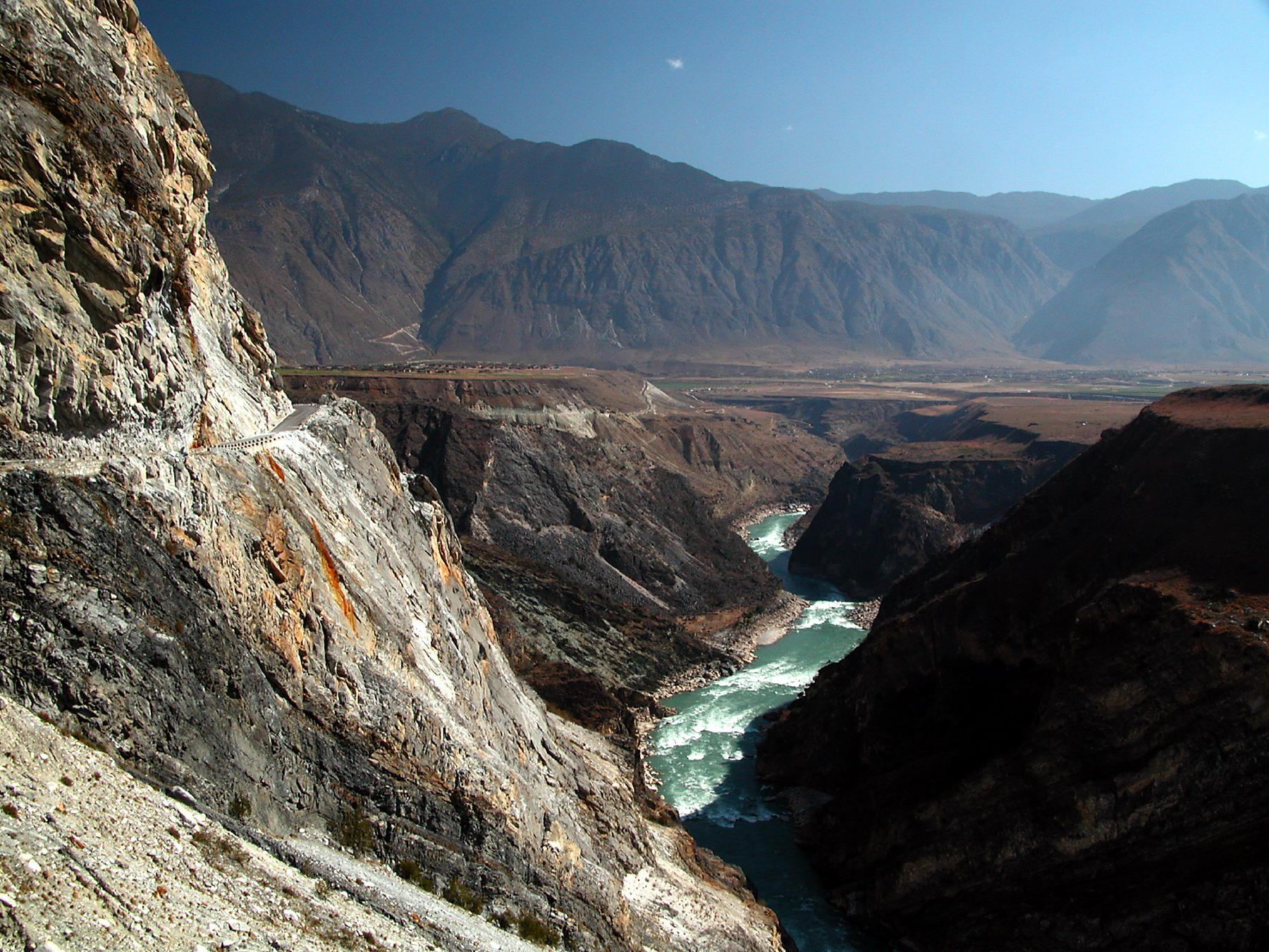 The upper reaches of the Yangzi River bearing north, having just emerged from the worlds deepest gorge in Yunnan (the Tiger Leaping gorge, SW China.River Left